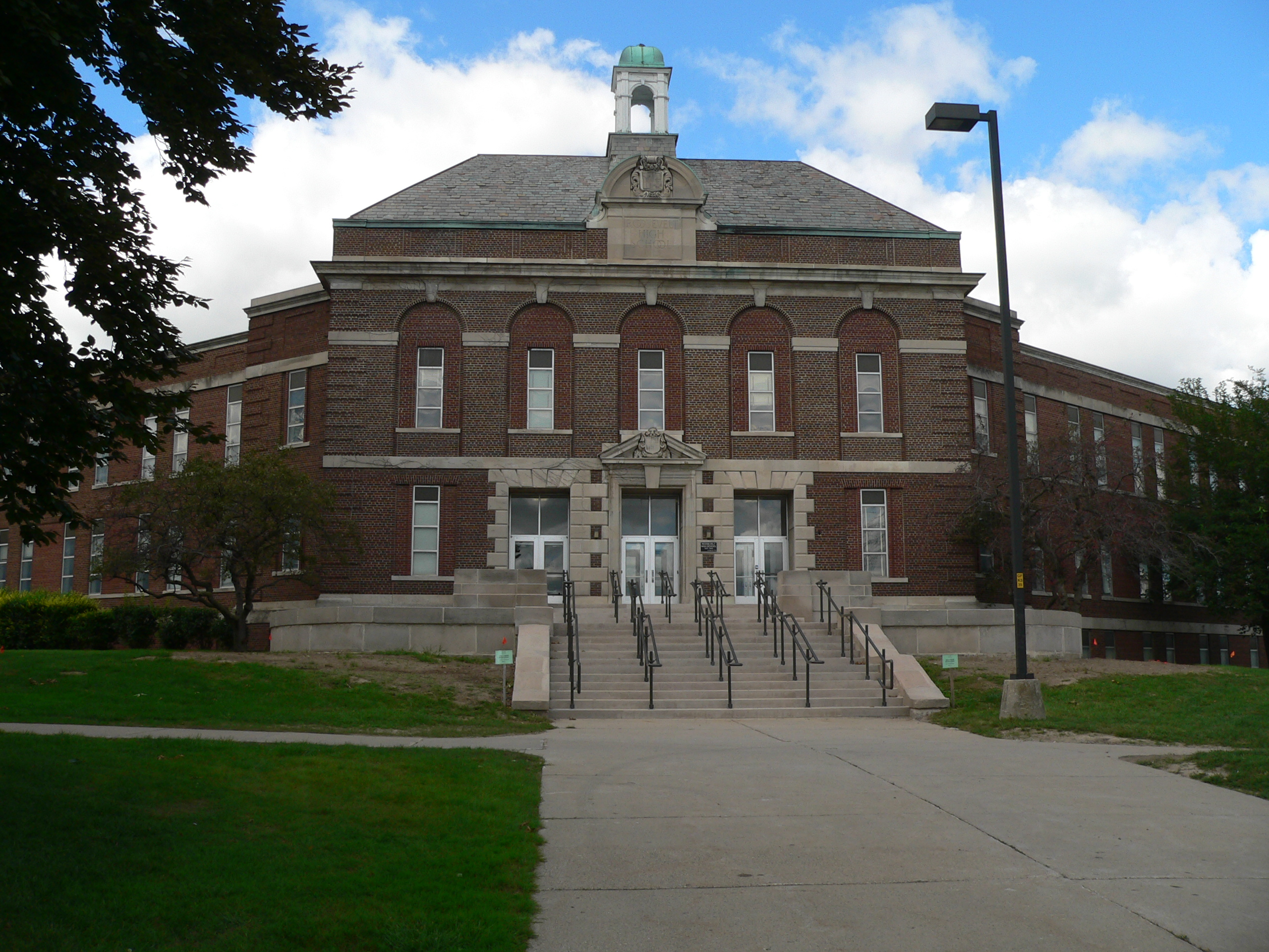 Roosevelt Hall at Eastern Michigan University